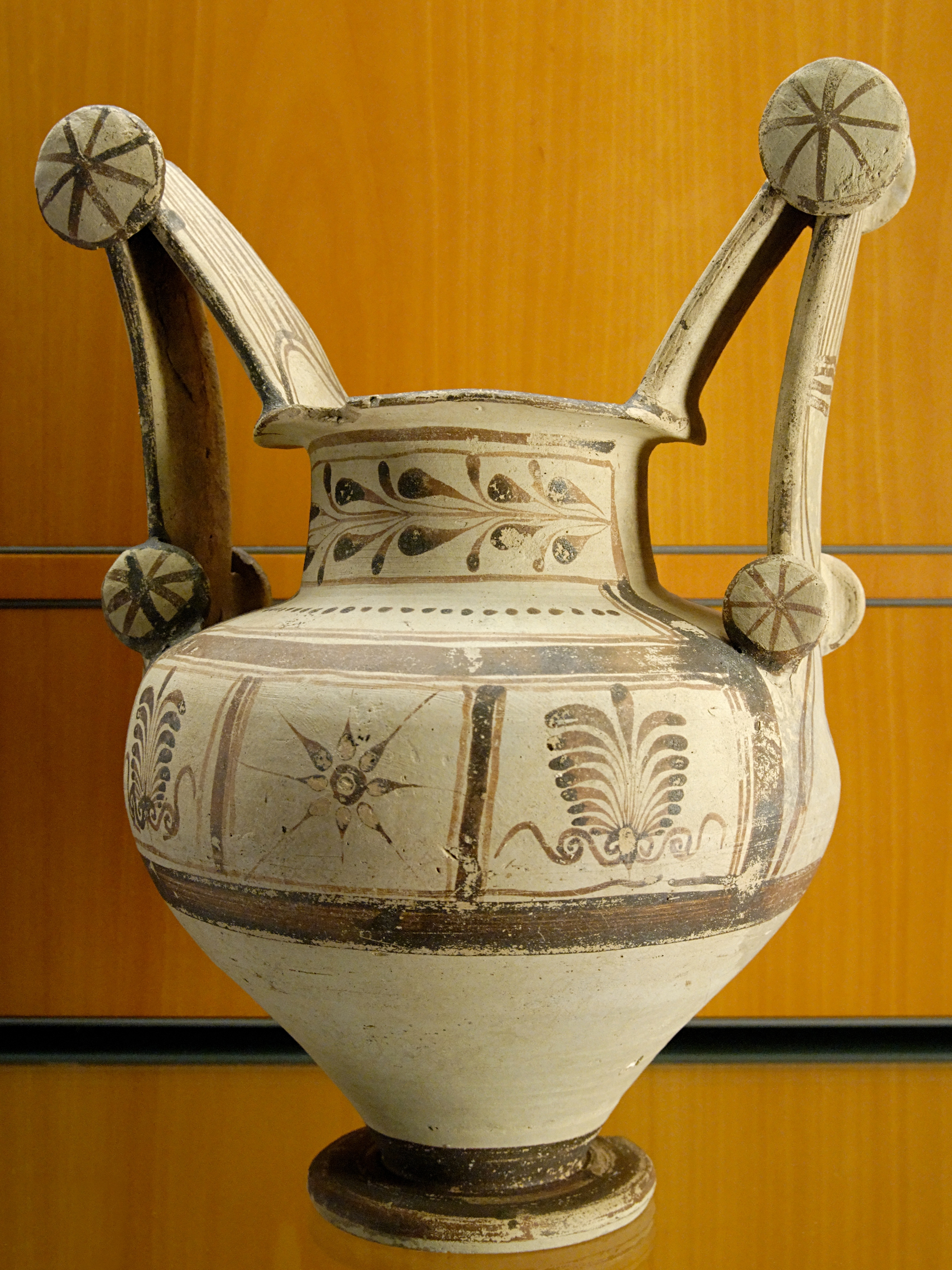 Nestoris/trozzella, 4th century BC. From the Messapian region, Apulia.